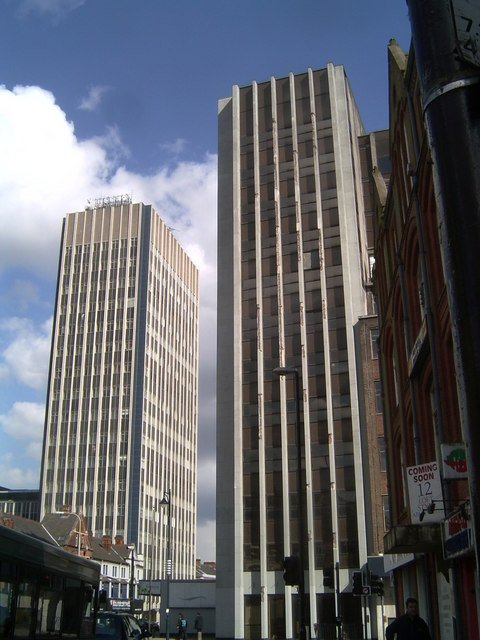 The 'Twin Towers' of Humberstone Gate. Still a rather decayed but fascinating part of Leicester, the farther tall building on the left is the tallest building in Leicester, and the tallest British Telecom building outside London. The nearer tower on the right is a former hotel. At present there are chunks of concrete falling from this building! (the BT Tower claim is doubtful given the BT Tower in Birmingham. Mtaylor848 (talk) 13:00, 4 May 2014 (UTC))